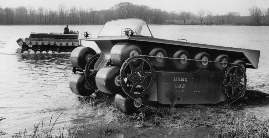 Image of Prototype BorgWarner Airoll vehicle "Airoll 1" known by the US Marine Corps as "LVA-X1". In the background is another prototype, the Kristi KT-4.